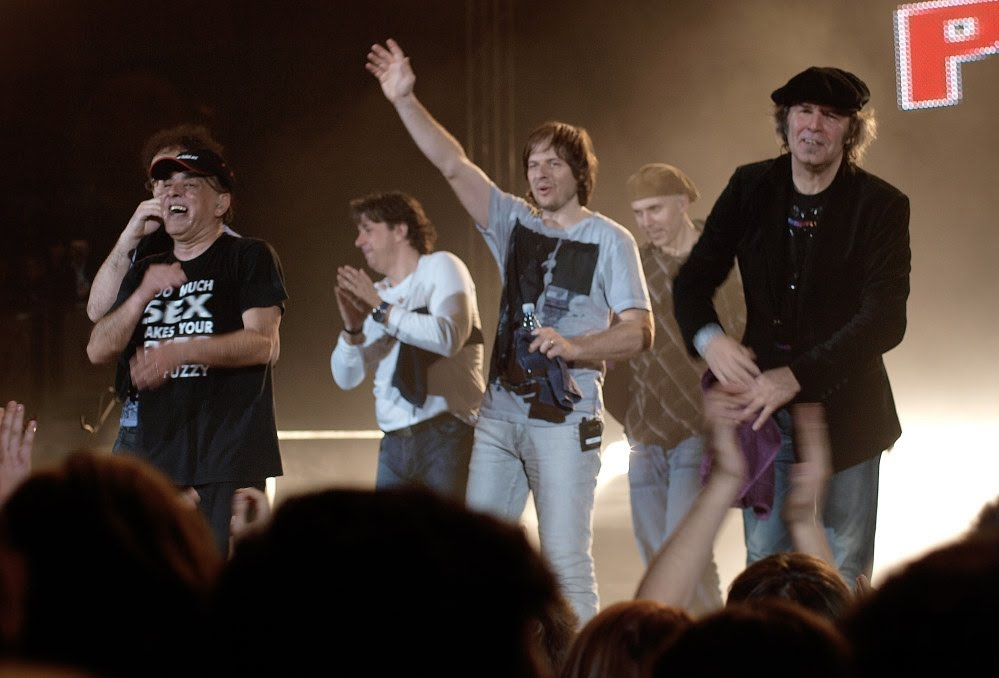 Parni Valjak concert in Maribor 2010